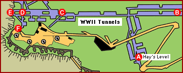 WW2 diagram Fordham's Accommodation are underground parallel chambers within the Rock of Gibraltar built during the Second World War. A Hay's Level B Accommodation C Tunnelling Memorial D Clapham Junction E Jocks Balcony F Exit to surface